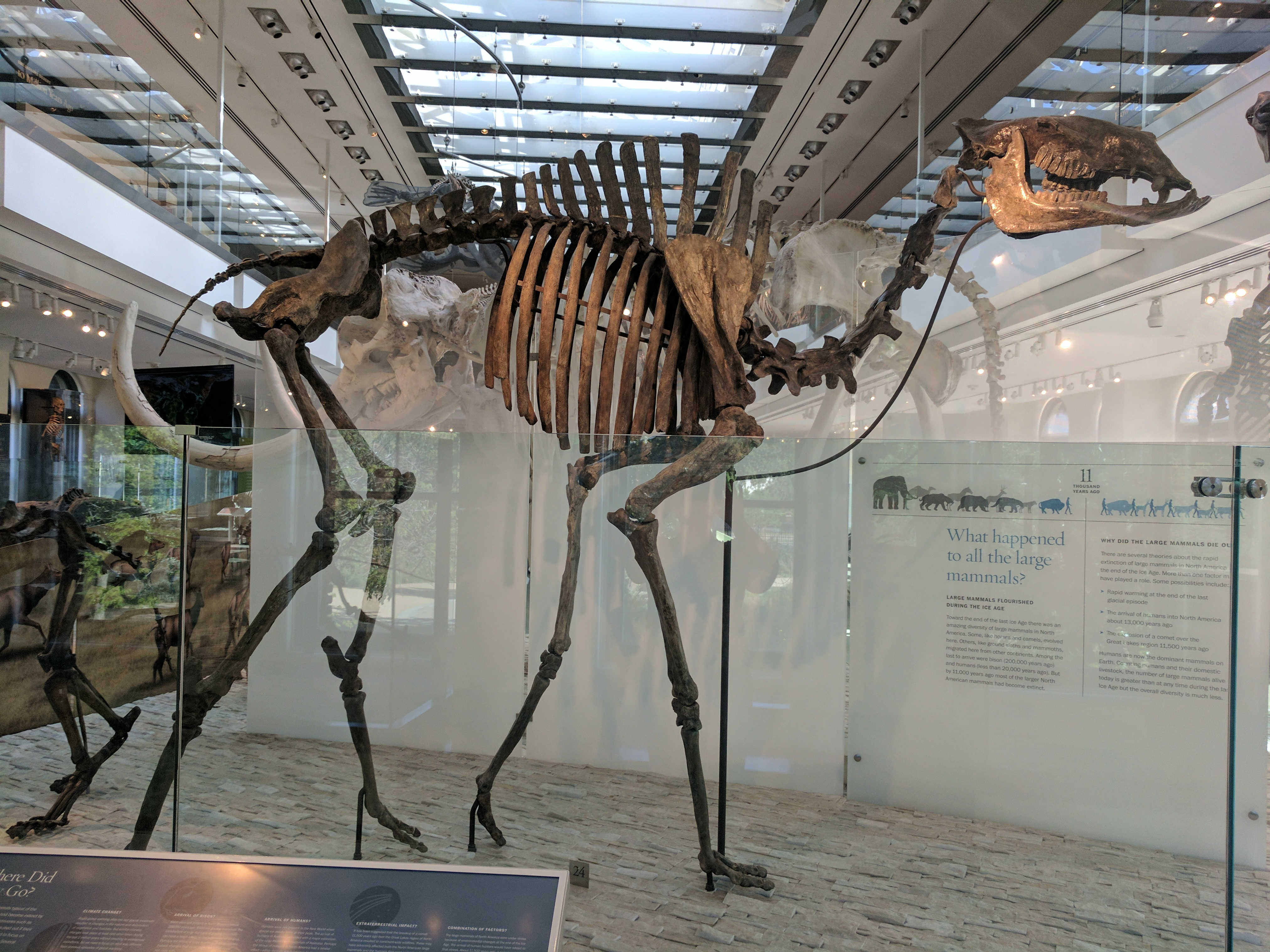 Natural History Museum Los Angeles